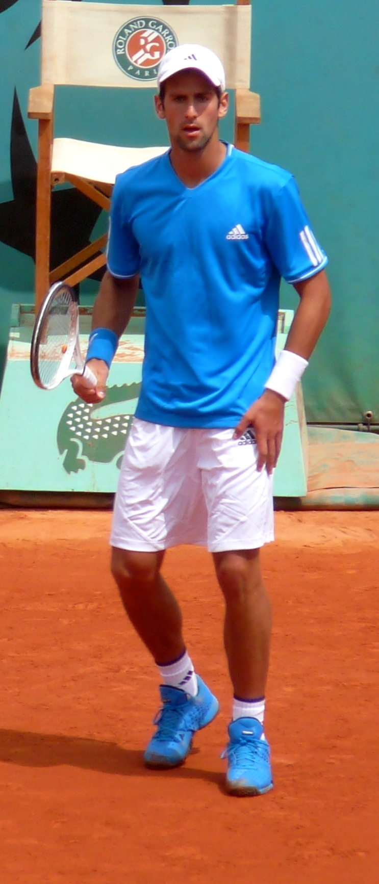 Novak Đoković against Sergiy Stakhovsky in the 2009 French Open second round